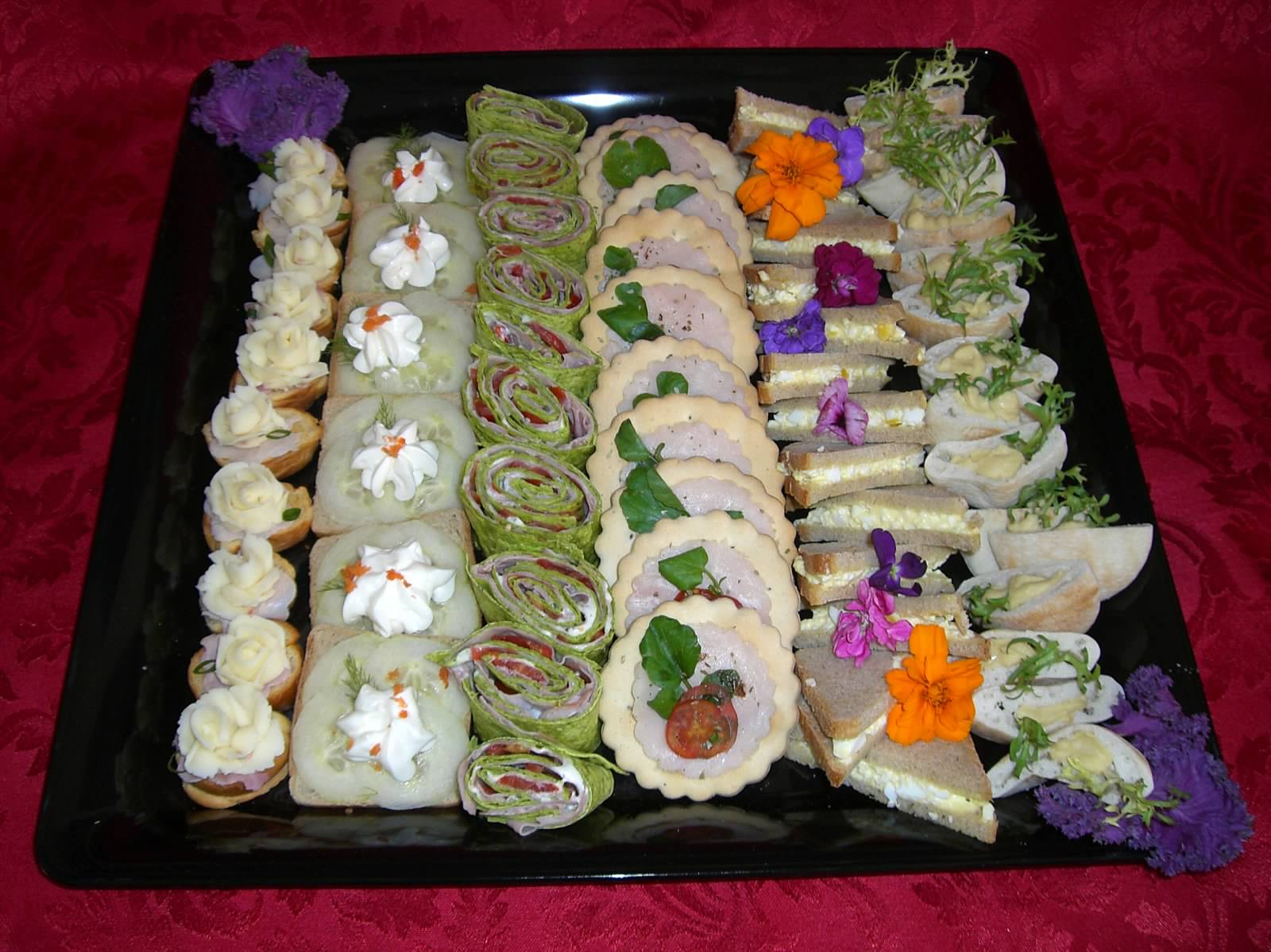 Canape tray for a dinner party